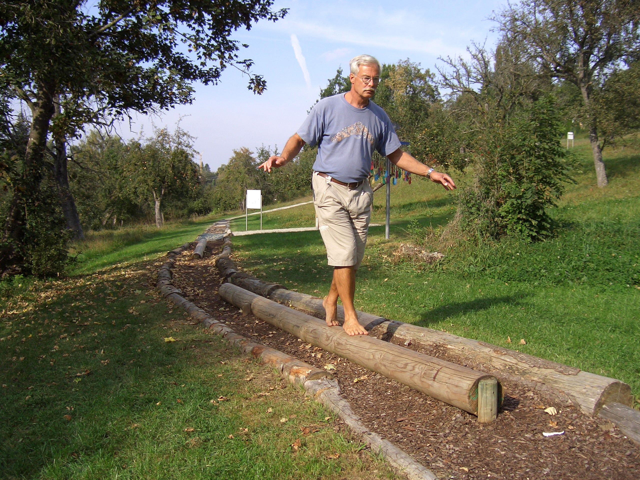 Barefoot trail Hechingen, Germany